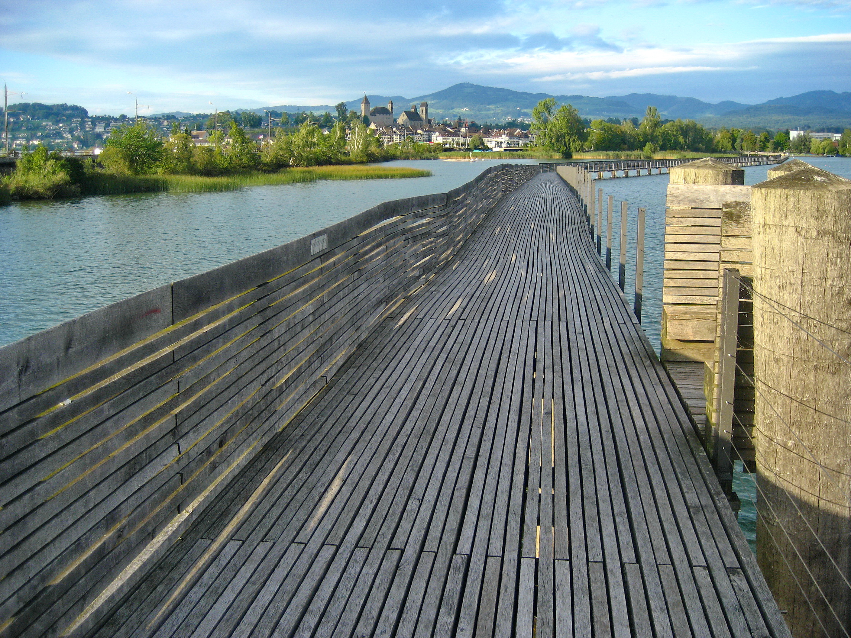 Rapperswil (SG) : Seen from Pilgersteg (Pilgrims' bridge) Hurden-Rapperswil over upper Lake Zurich, Seedamm to the left; Rapperswil castle, St. John's church and Bachtel in the background.